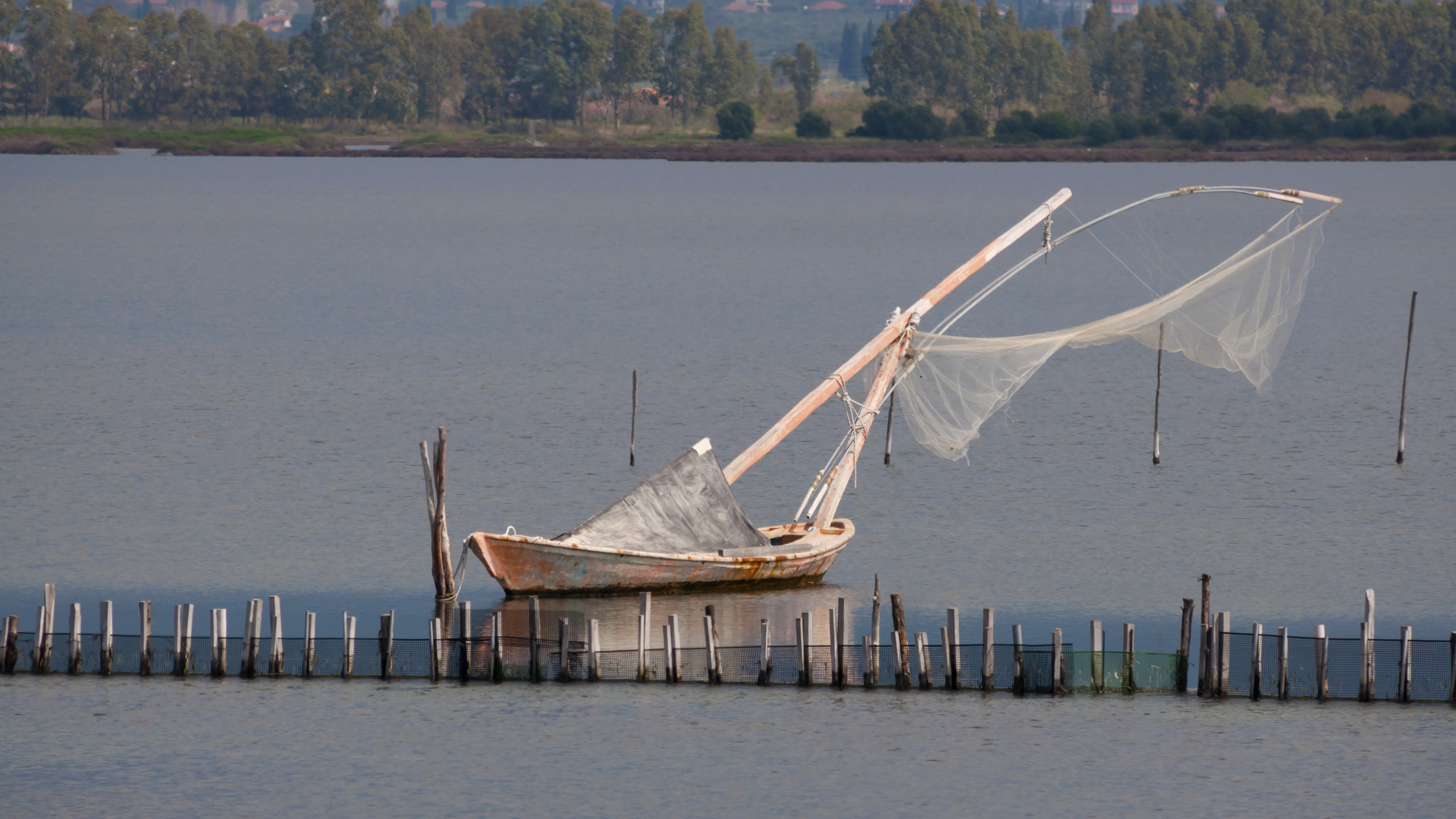 This is a photography of Natura 2000 protected area with ID GR2310015 Ψαρόβαρκα στη λιμνοθάλασσα Μεσολογγίου Fisherboat in the Mesolongi Lagoon